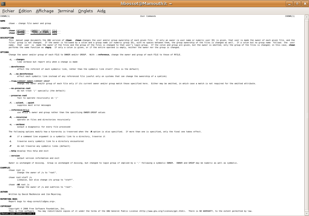 UNIX command chown manual